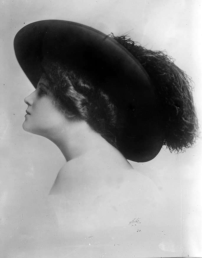 Portrait of Vaudeville and Silent Film Actress Laura Nelson Hall